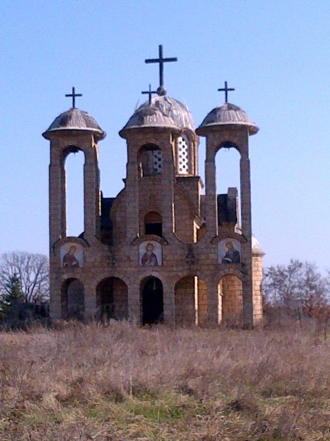 The Church of St John the Baptist was completed in 1998 as the Rajovic family foundation in Pecka Banja.